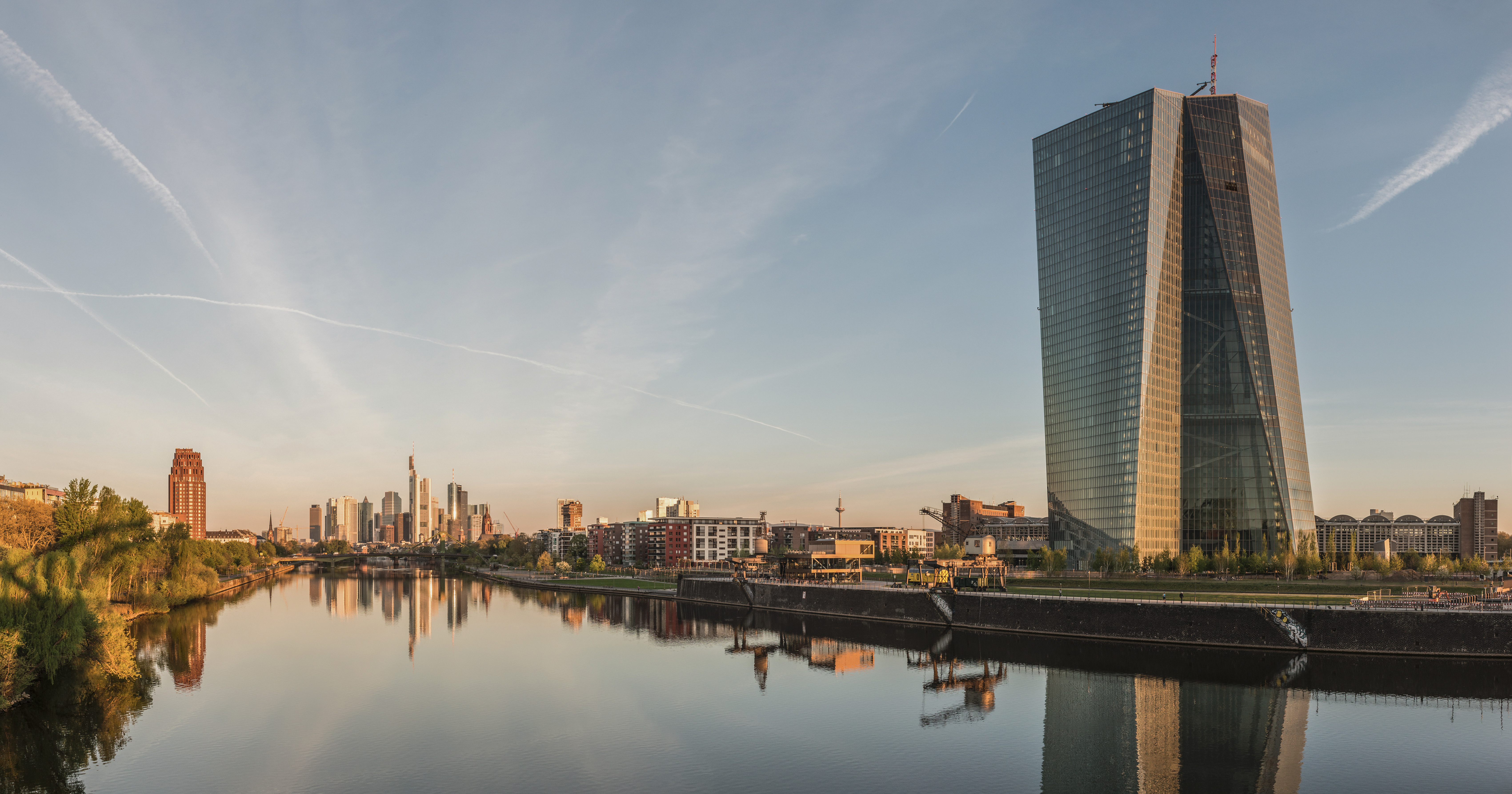 The Seat of the European Central Bank and Frankfurt Skyline at dawn, as seen from west